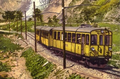 Bernina Railway train with BCe 4/4 railcars in front of the Palü Glacier